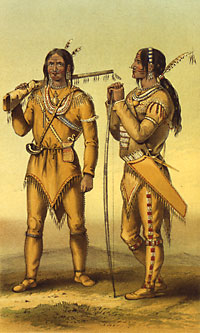 Gwich'in Hunters at Fort Yukon 1847 Gwich'in Hunters from Alexander Hunter Murray's 1847 Journal